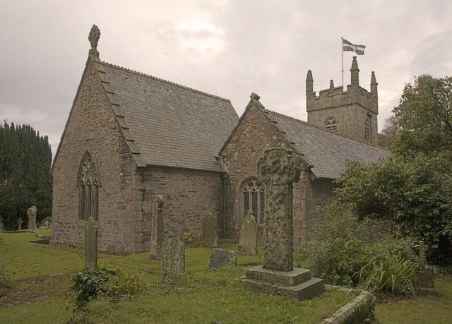 Mawnan Church, Kerrier district, Cornwall